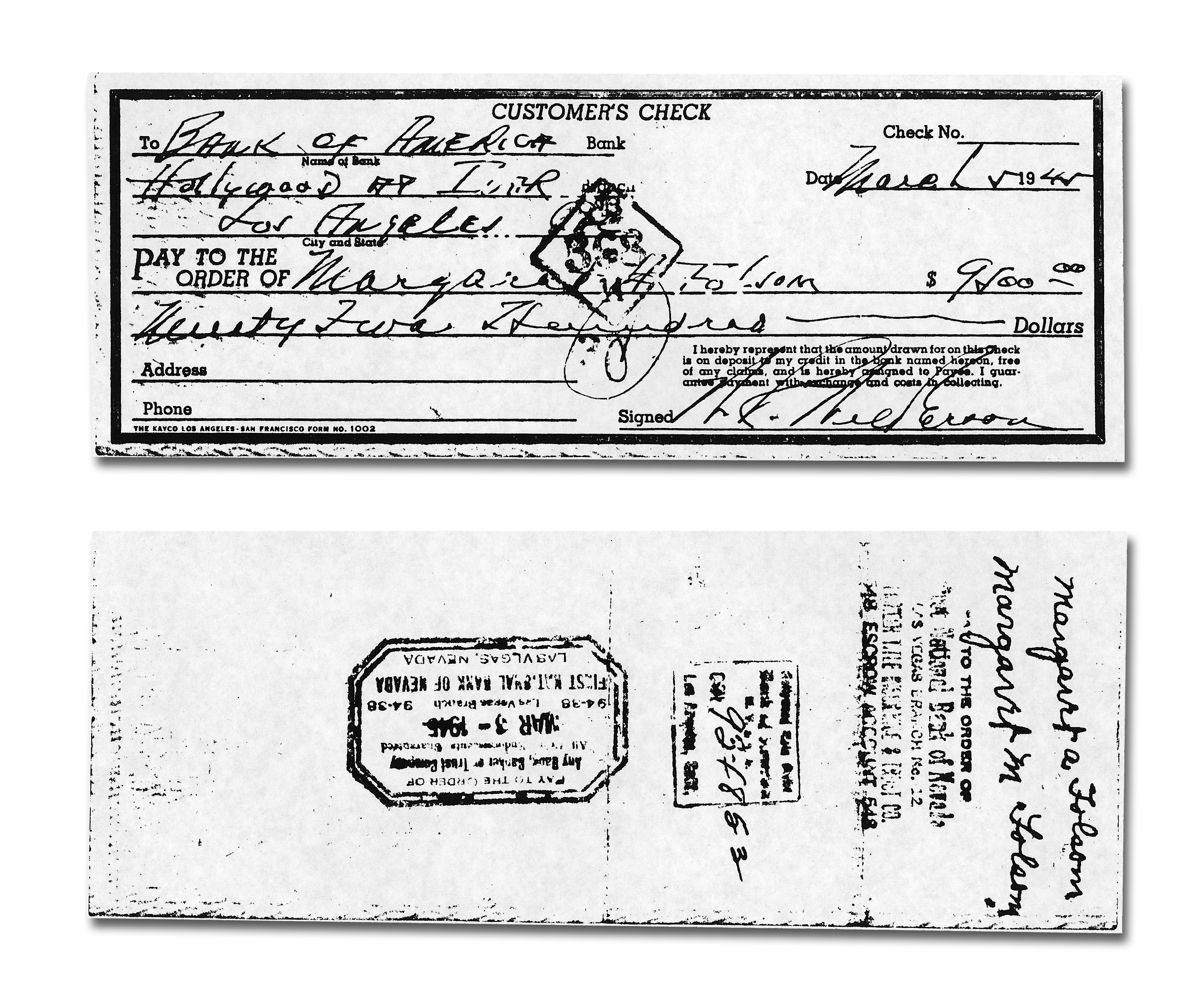 Margret Folsom Check For Flamingo Land 1945